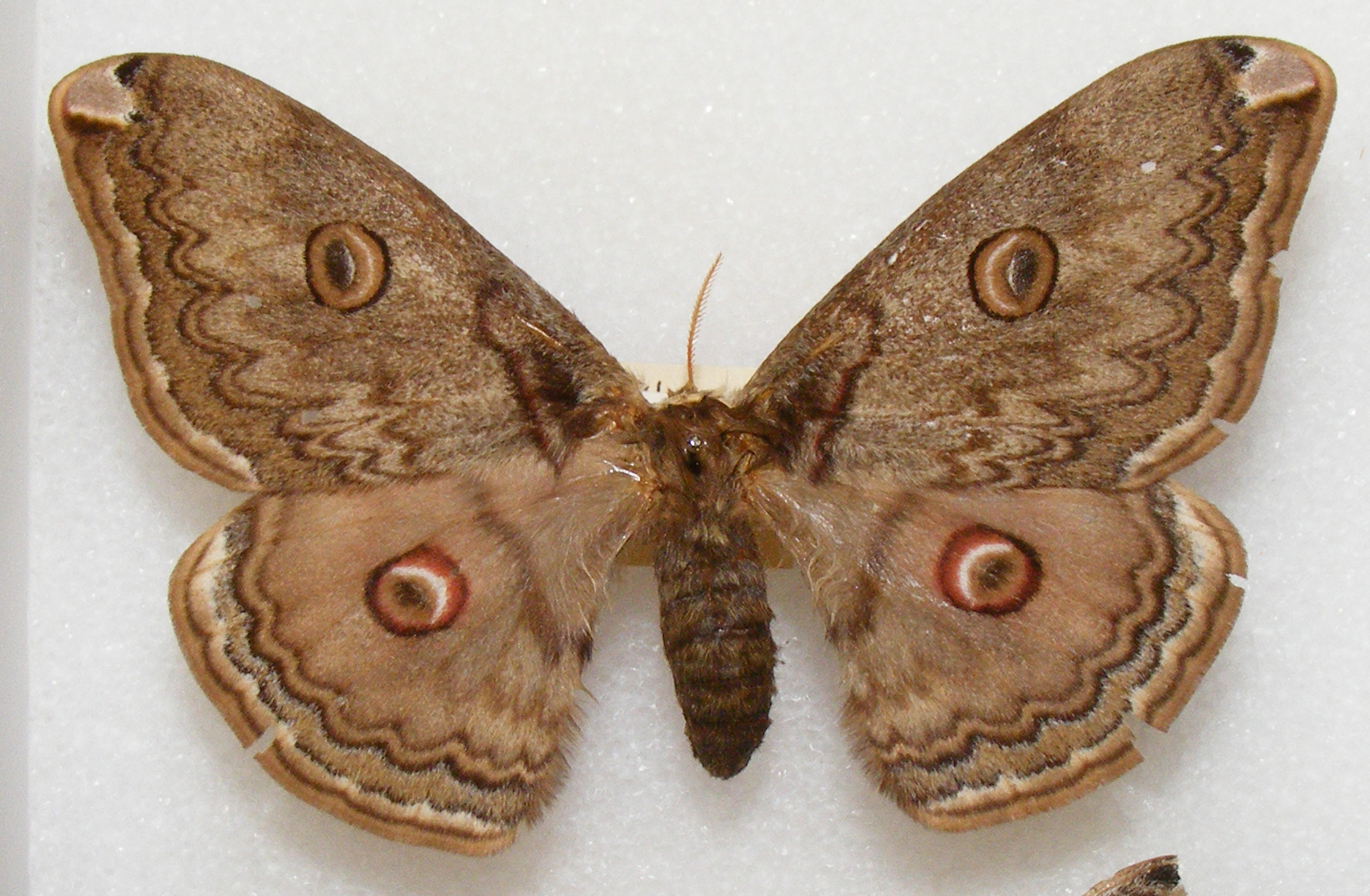 Caligula lindia adult female from the Texas A&M University Insect Collection